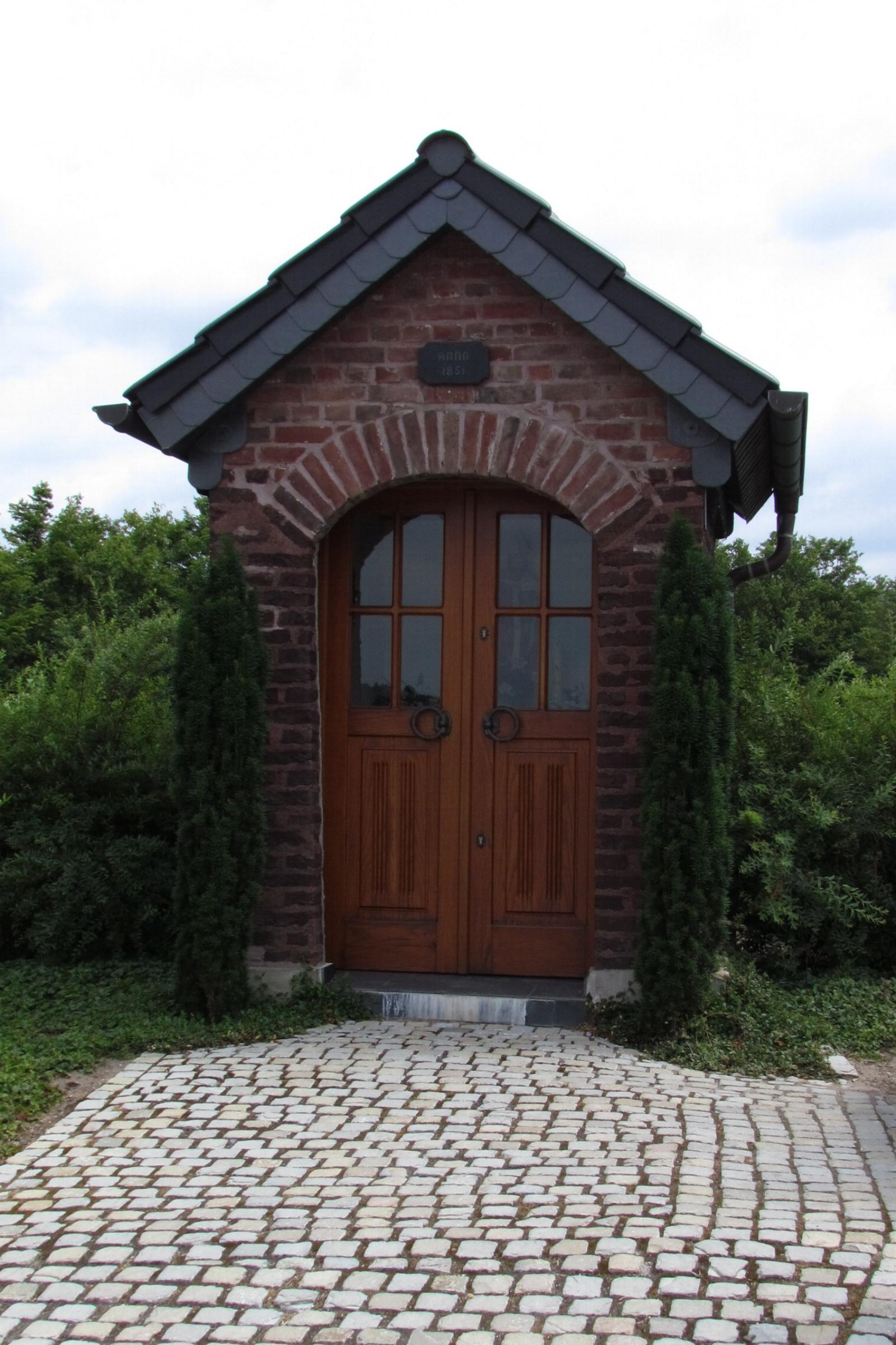 This is a photograph of an architectural monument.It is on the list of cultural monuments of Korschenbroich